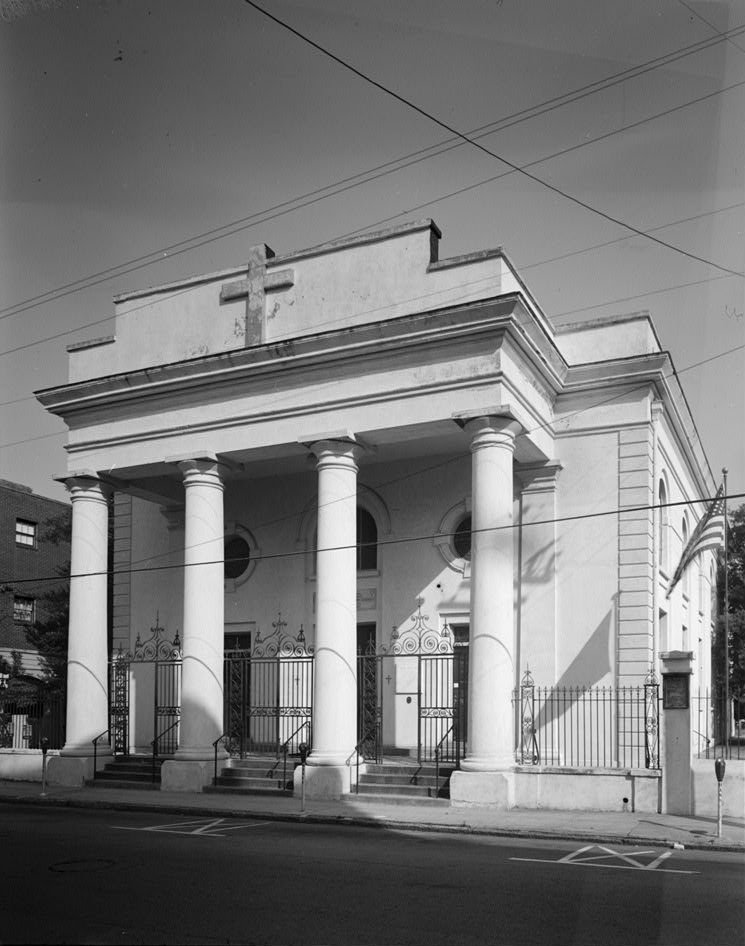 St. Mary's Roman Catholic Church in Charleston, South Carolina